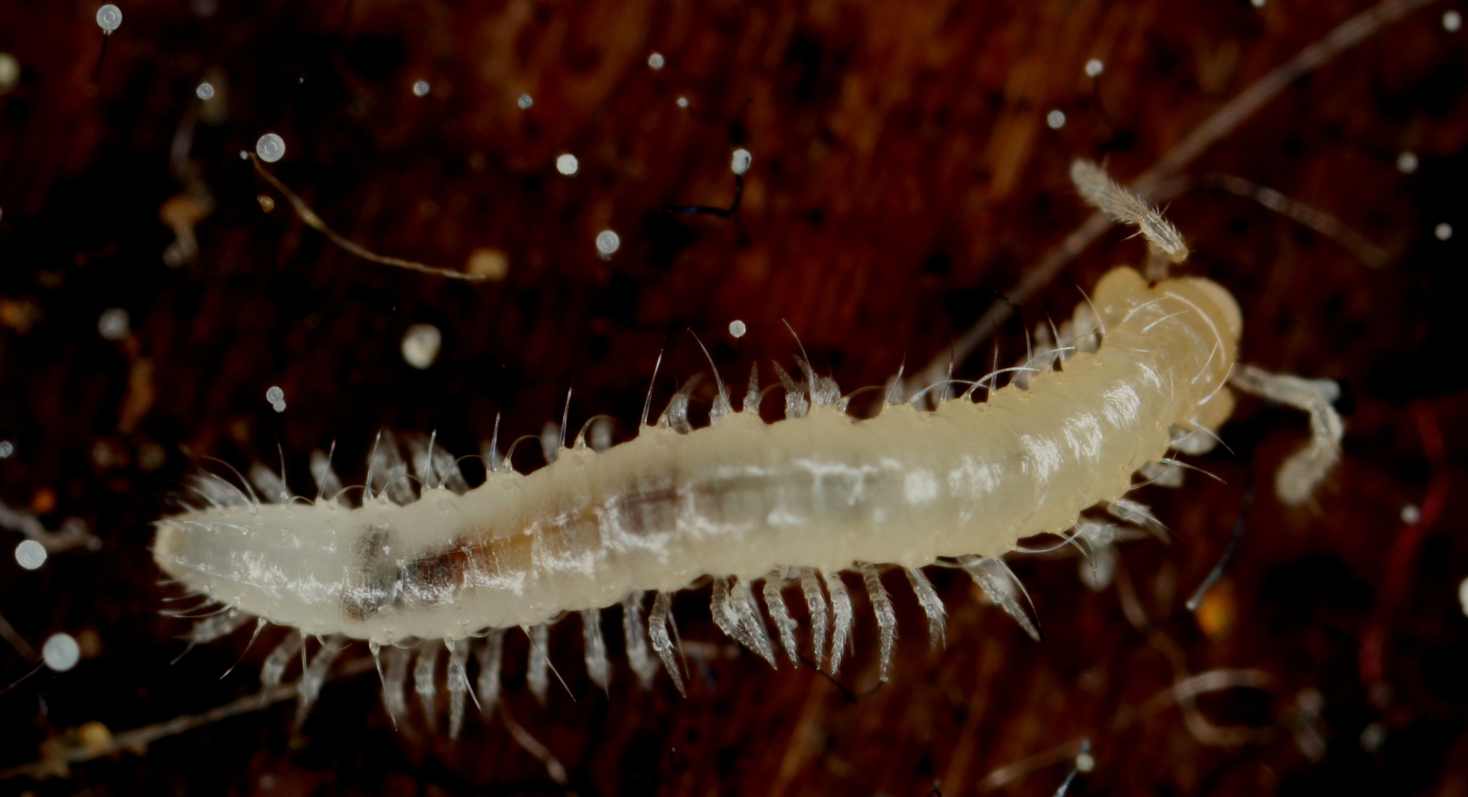 Endemic Caseya millipede (order Chordeumatida), from Oregon Caves National Monument